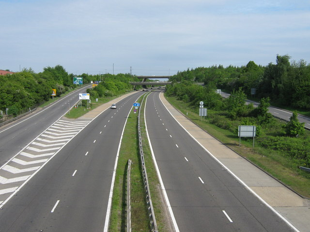 The A20 Dual Carriageway becomes the M20 Motorway The A20 dual carriageway from London heads under B2173 London Road bridge then heads straight on to become the M20 Motorway heading towards Maidstone. Hence blue sign in the centre. The road on the left is a off-ramp heading to Junction 3 on the M25 Motorway (bridges in background over the motorway). The road on the right is a on-ramp to the A20.